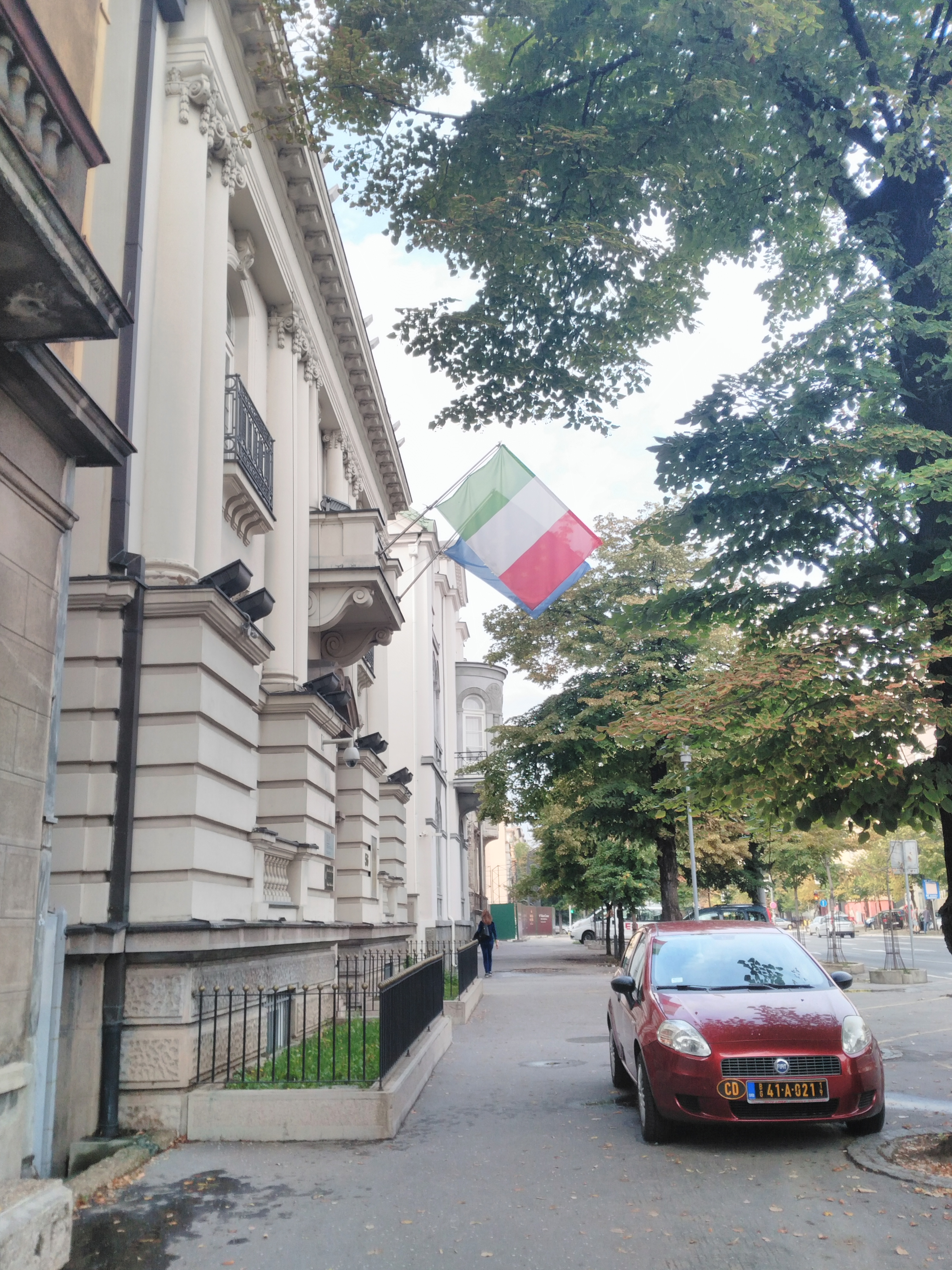 The Istituto Italiano di Cultura n Belgrade. It is a worldwide non-profit organization created by the Italian government to promote Italian culture.